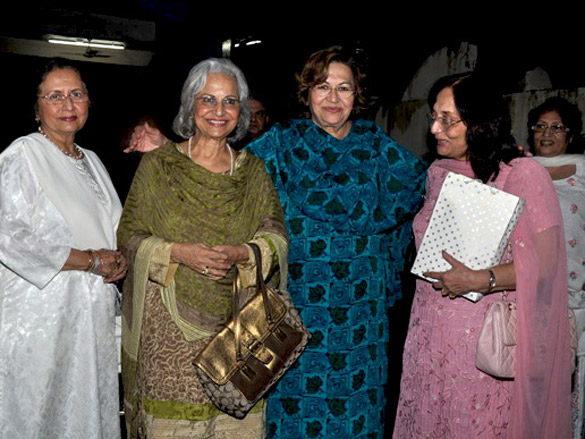 Nanda, Waheeda, Helen and Sadhana watch 'We Are Family' at Ketnav, Mumbai